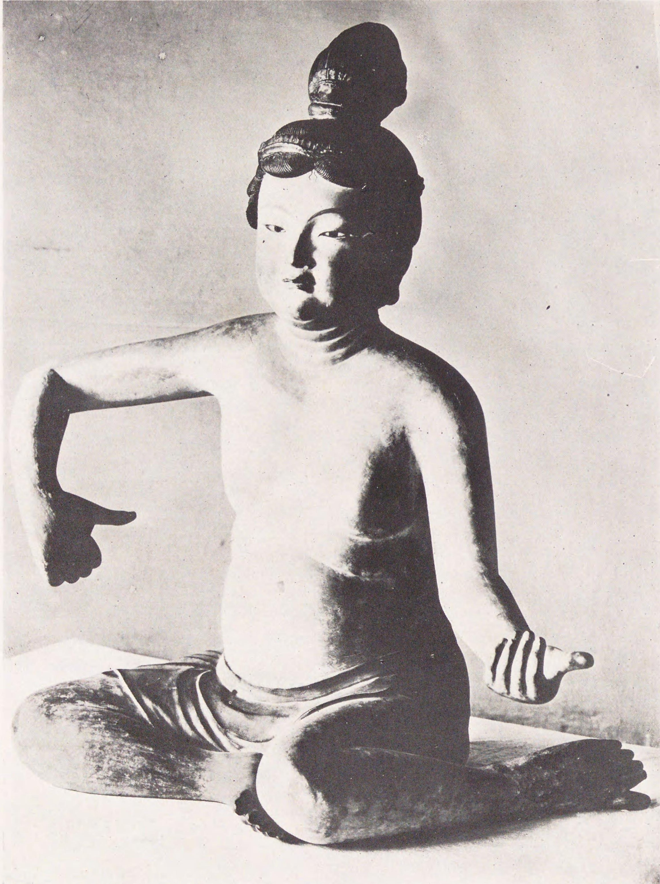 A statue of Benzaiten made in 1266 at Tsurugaoka Hachiman-gū, Kamakura, Kanagawa prefecture. An Important Cultural Property of Japan.